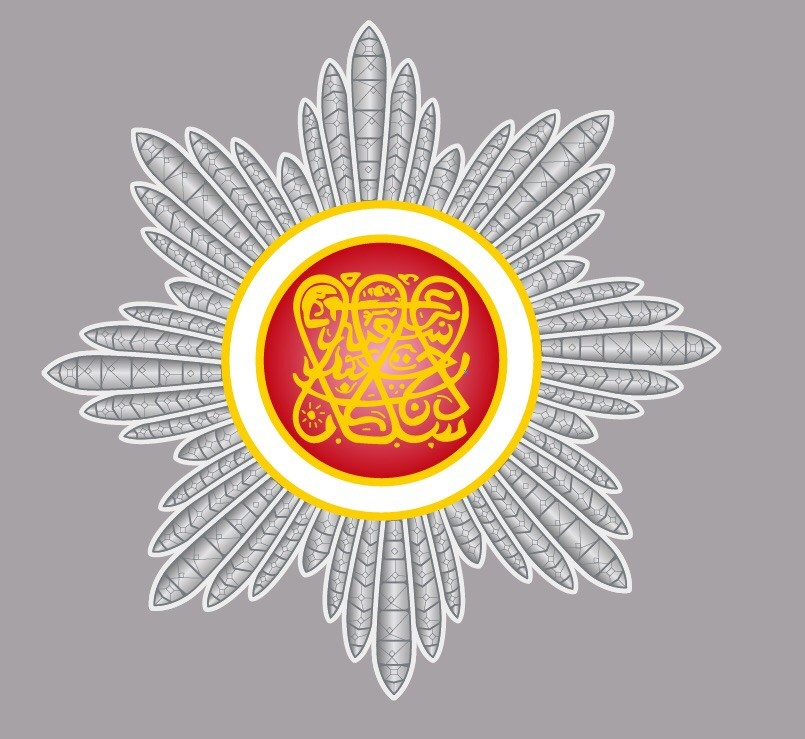 Order of the Brilliant Star of Zanzibar II grade breast star